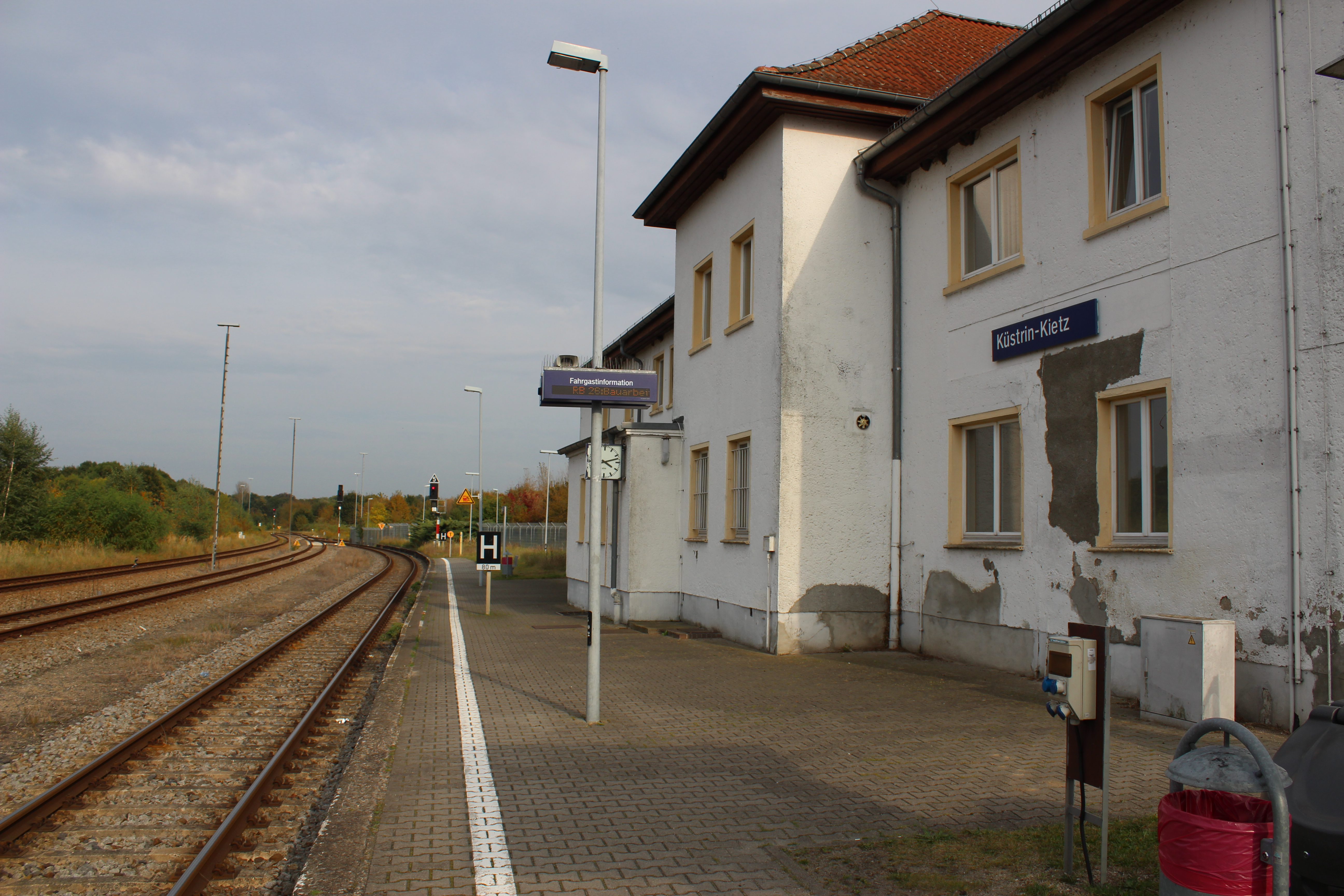 train station Küstrin-Kietz, platforms